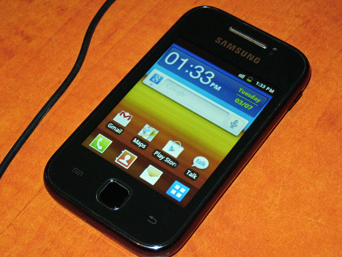 This is Samsung Galaxy Y S5360 smart phone run Android Gingerbread 2.3.6